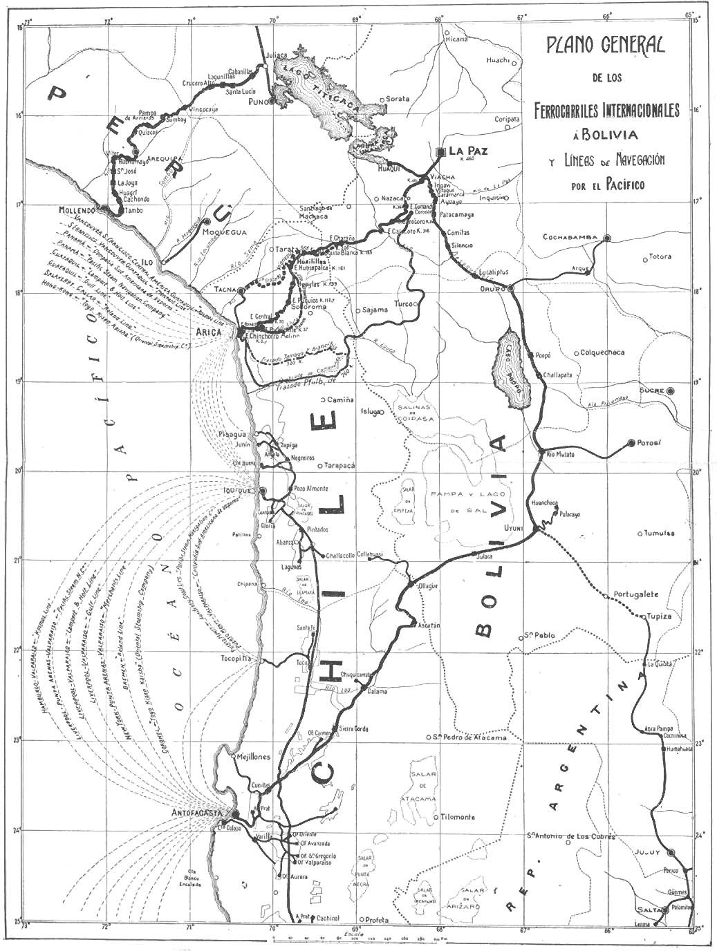 (Part of a) Map of the railroad Arica-La Paz. The whole map (page) shows more.